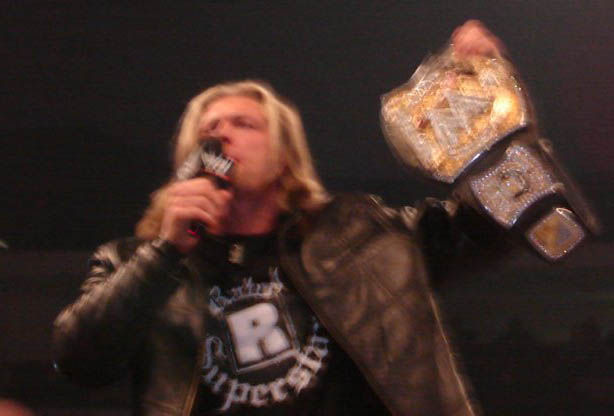 Edge as the WWE Champion with the "Rated R" model.